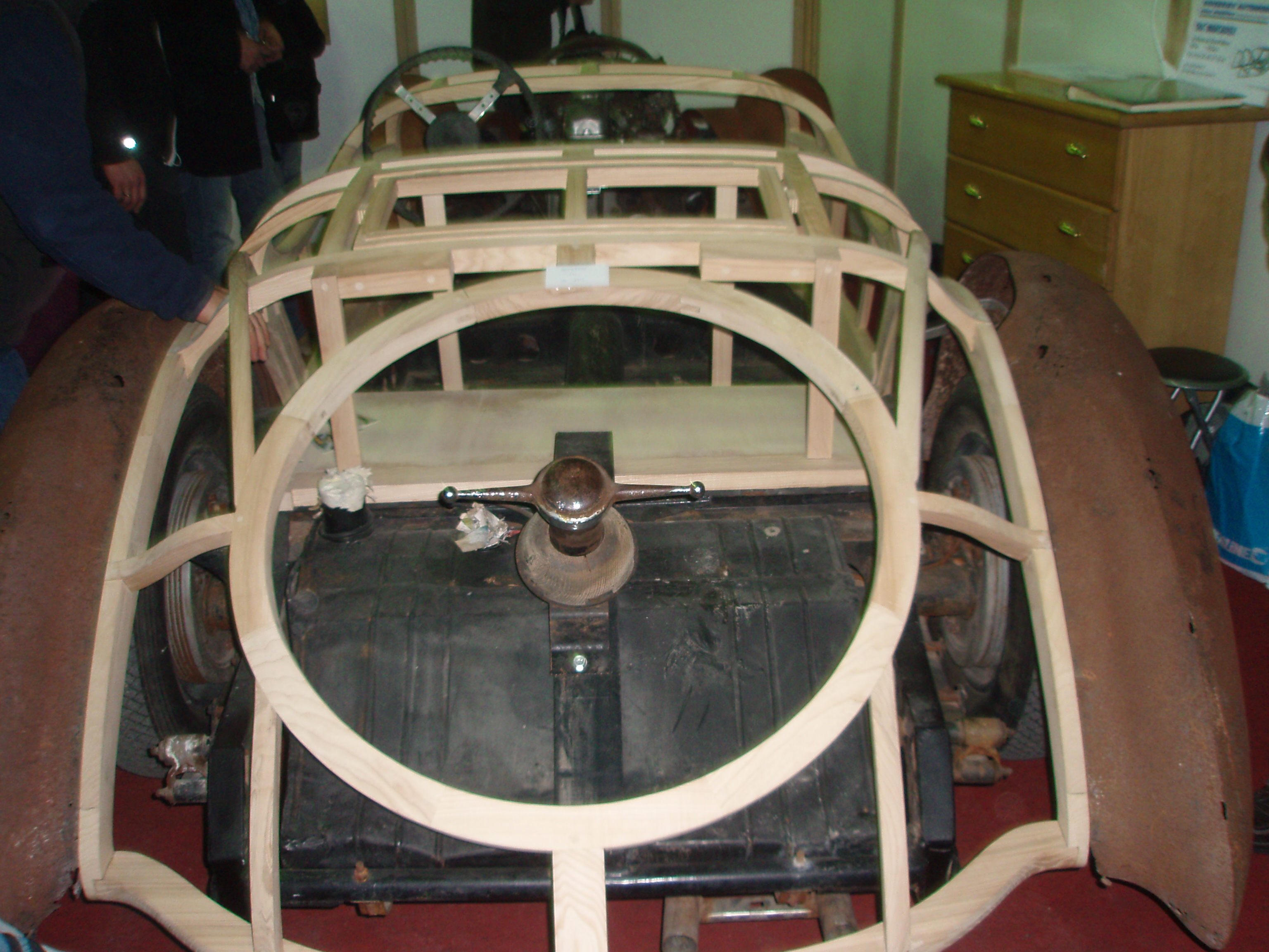 Restoration of a Delahaye 135, with a new wooden (ash) frame (2012 Salon Champenois du véhicule de collection in Reims, France).